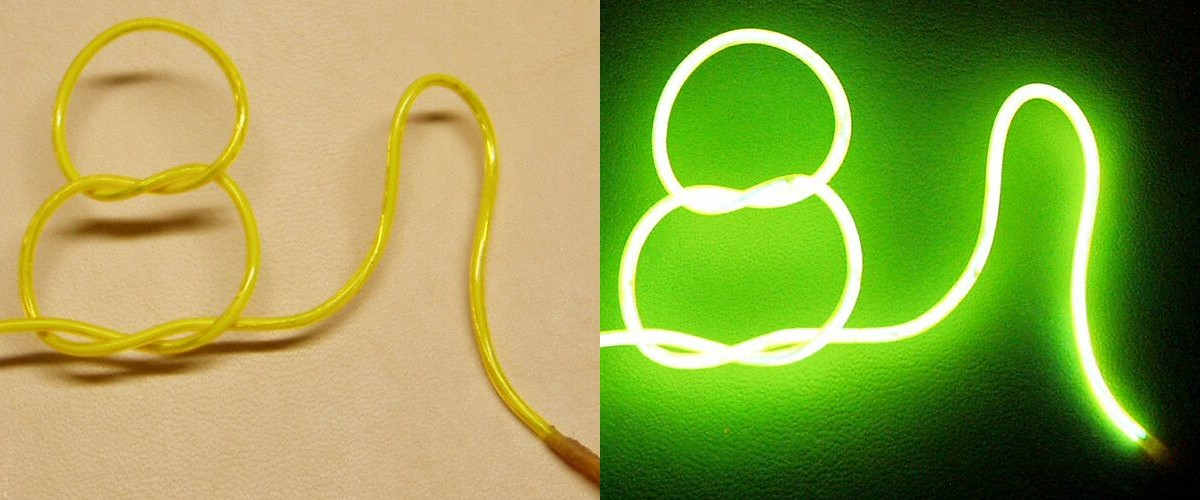 Electroluminescence cable. Comparison cutting and with power supply.